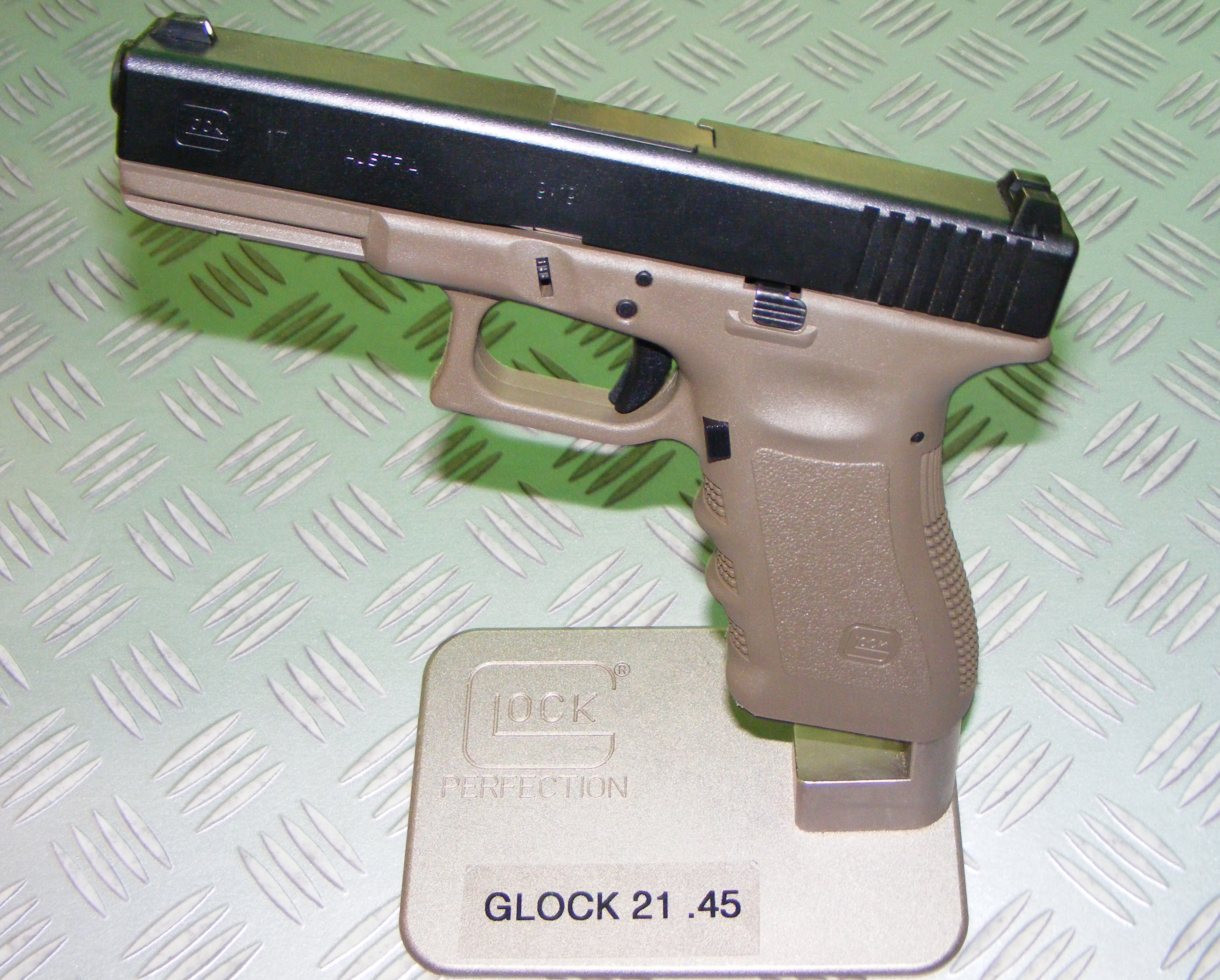 Glock 17